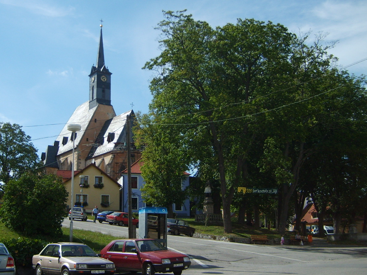 Gothic church of St Giles in Dolní Dvořiště.